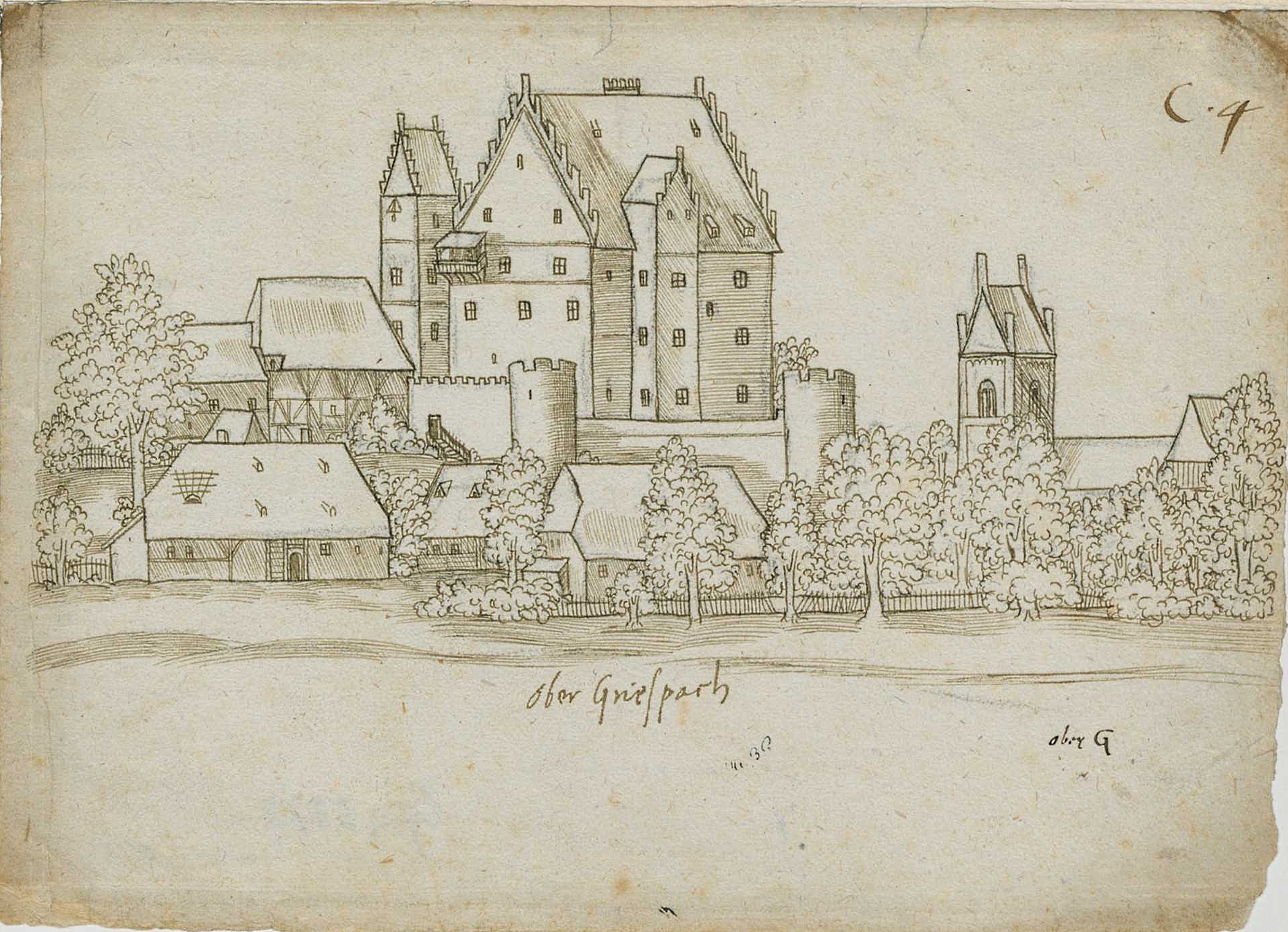 The bavarian Obergriesbach castle